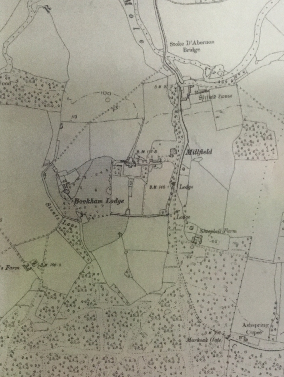 Bookham Lodge Map 1839